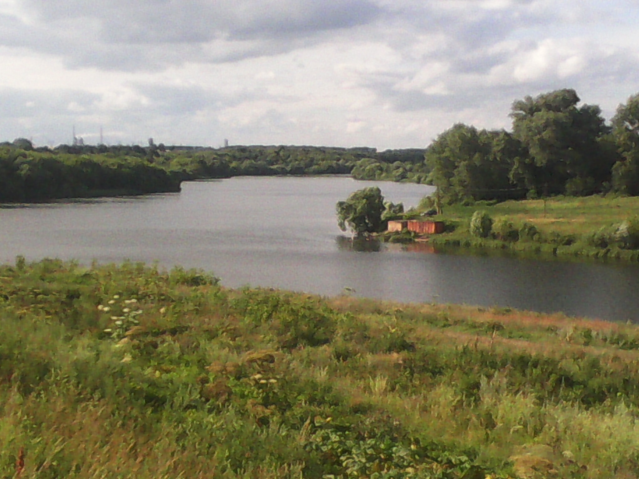 Lyubovka